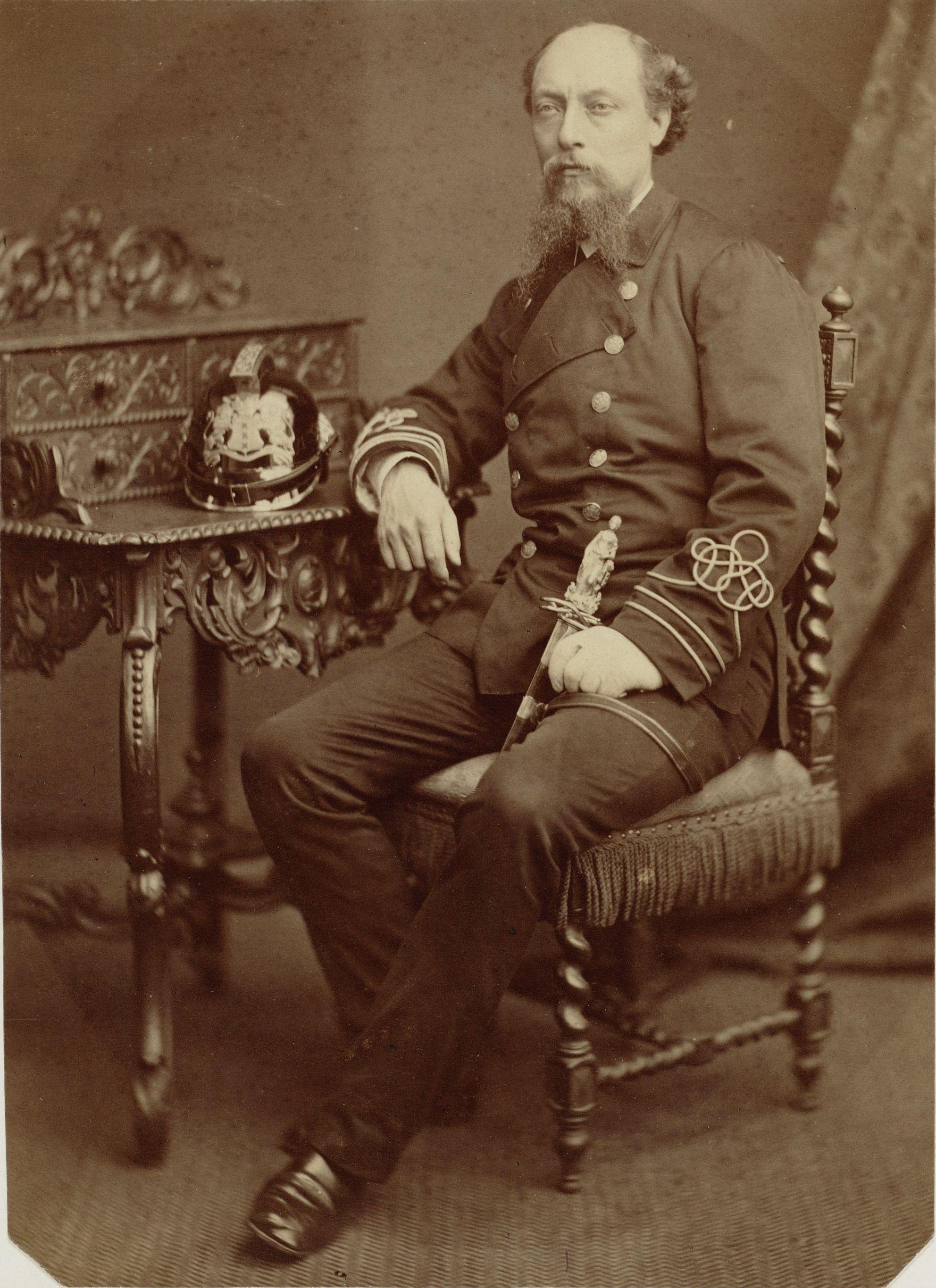 P.W. Steenkamp (1860-1914); Head of the Amsterdam fire brigade from 1872 to 1878 in uniform (from 1878 to 1895 he was Chief Constable of the Amsterdam Police)